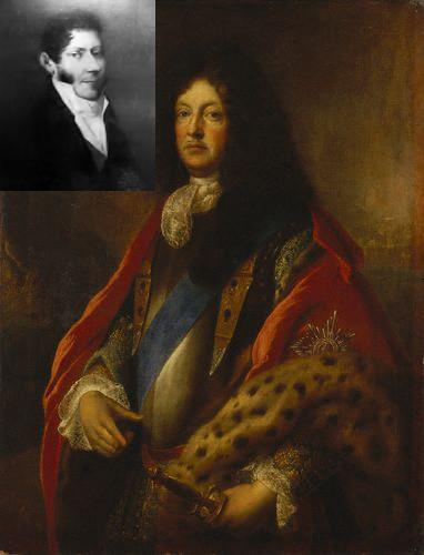 Richard Talbot, 1st Earl of Tyrconnell (1630-1691)